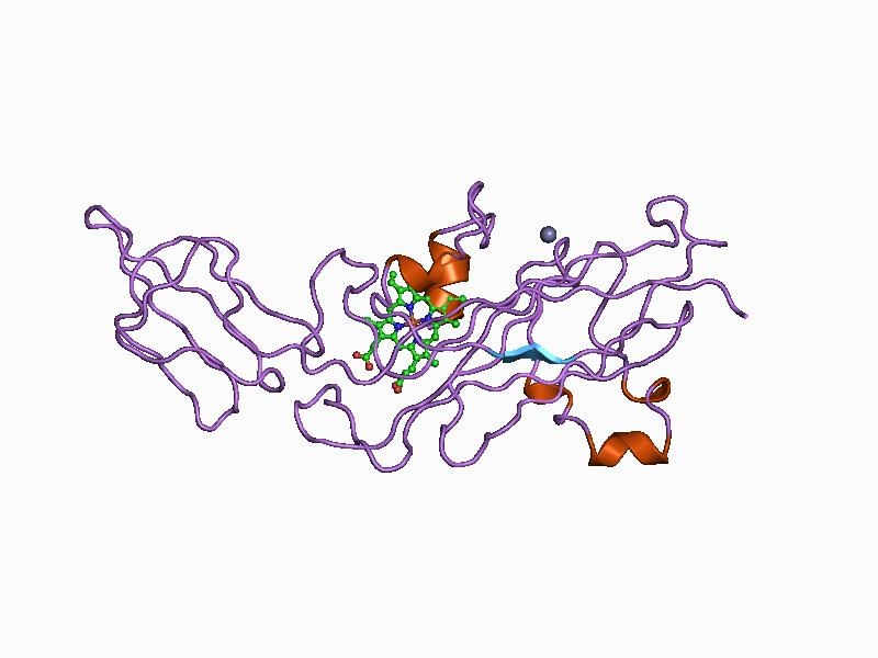 Cartoon representation of the molecular structure of protein registered with 1ci3 code.